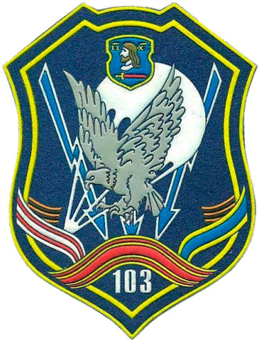 Insignia 103rd Guards Airmobile Brigade Belarus